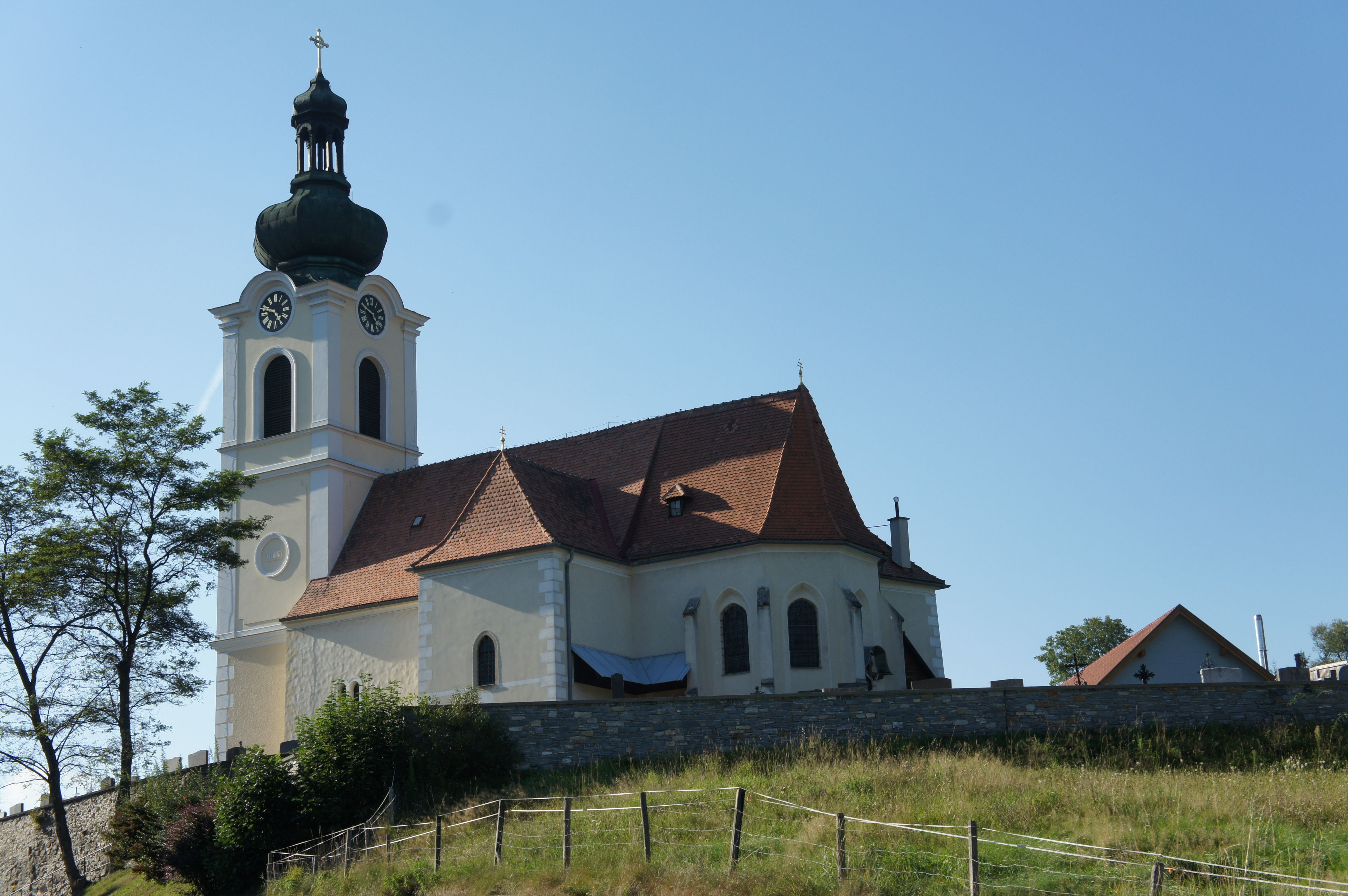 Catholic Church holy Georg, walls and cemetery, Zöbern, Austria